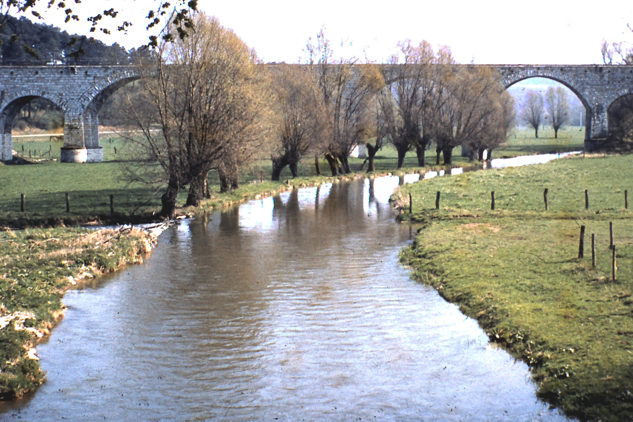 Railway viaduct in Niederntudorf, Germany, 1967.